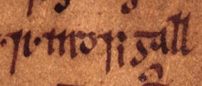 An excerpt from folio 15r of Oxford Bodleian Library MS Rawlinson B 488 (the Annals of Tigernach). The excerpt concerns Gofraid mac Arailt, King of the Isles (died 989), and reads: "rí Indsi Gall.